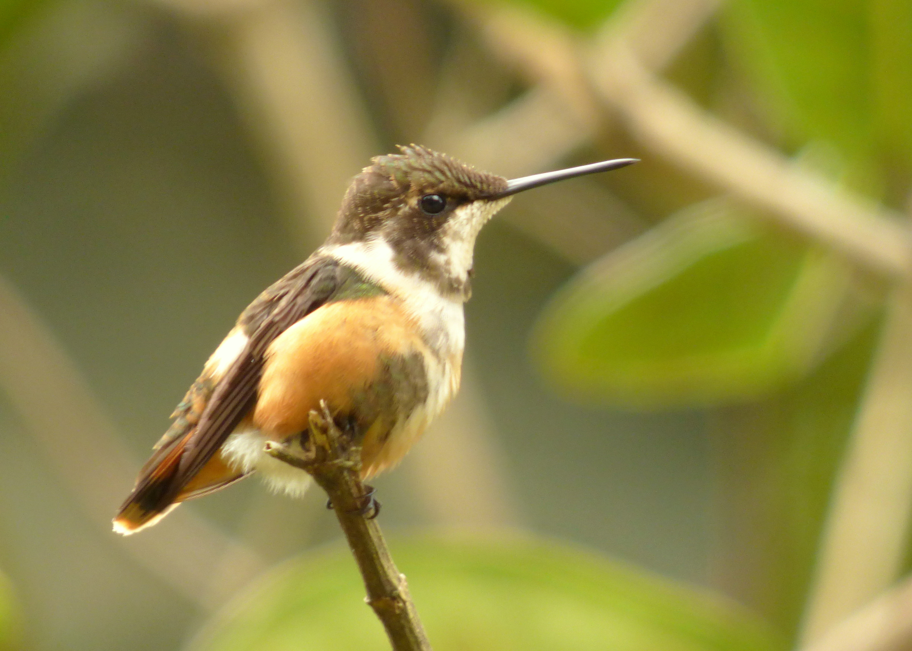 Calliphlox mitchelii (Zumbador pechiblanco) - Hembra